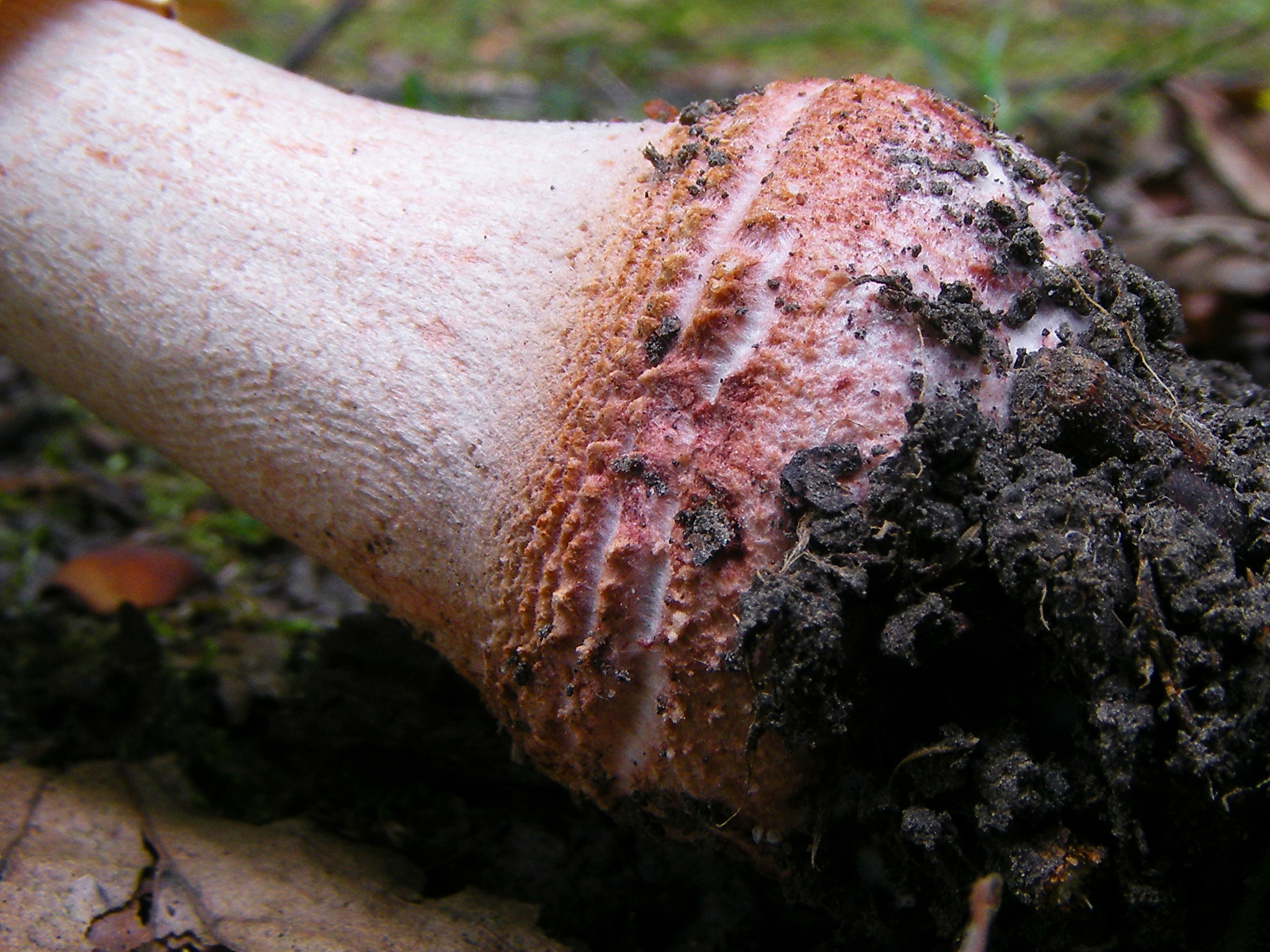 Amanita rubescens - stem base close-up.